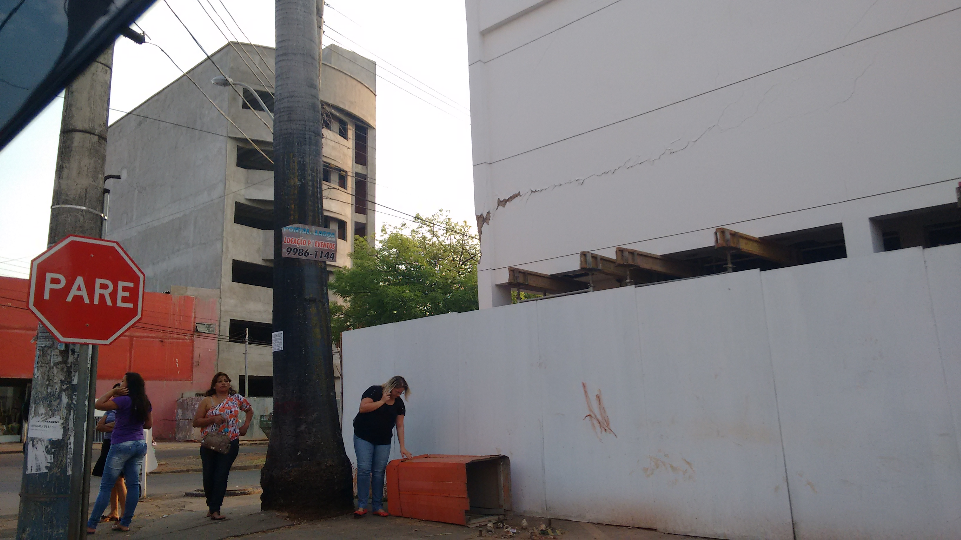 Setor Residencial Norte, Planaltina-DF